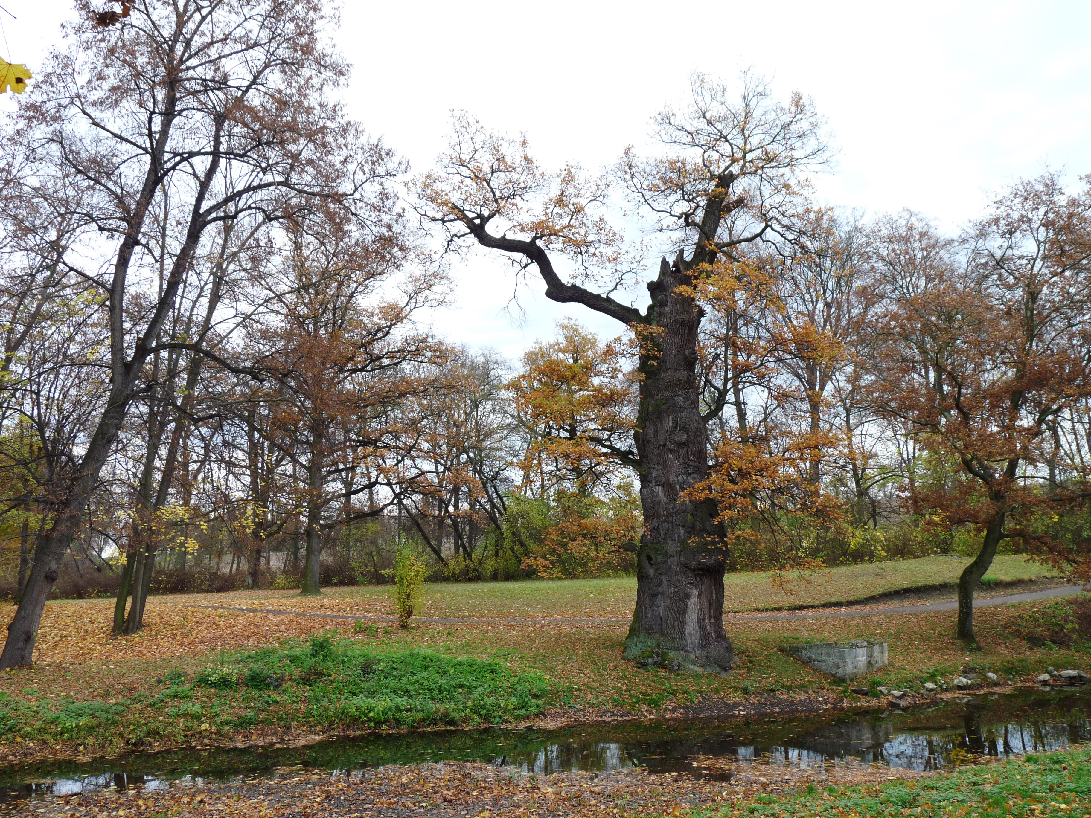 Castle park in the municipality of Krásný Dvůr in the Louny District, Ústí nad Labem Region, Czech Republic.